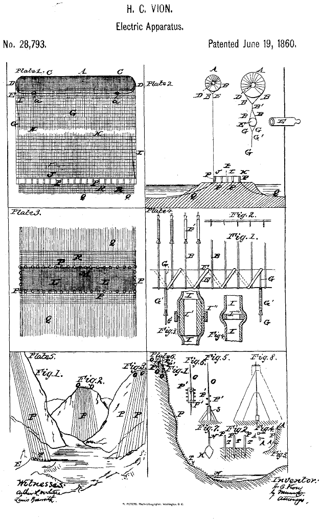 Method of obtaining atmospheric electricity and terrestrial magnetism and it's industrial applications